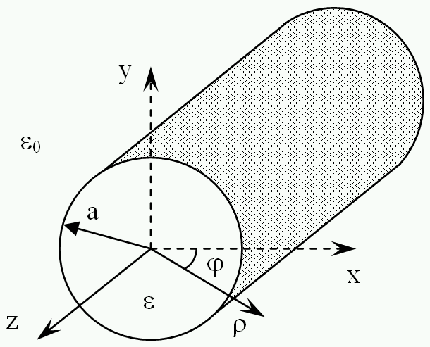 geometry of a dielectric cylinder